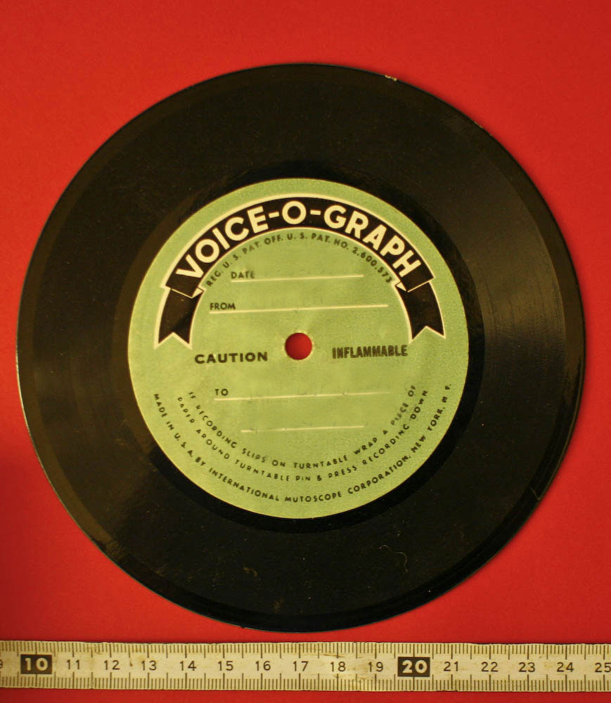 Voice-O-Graph, output record for 45- or 78 rpm